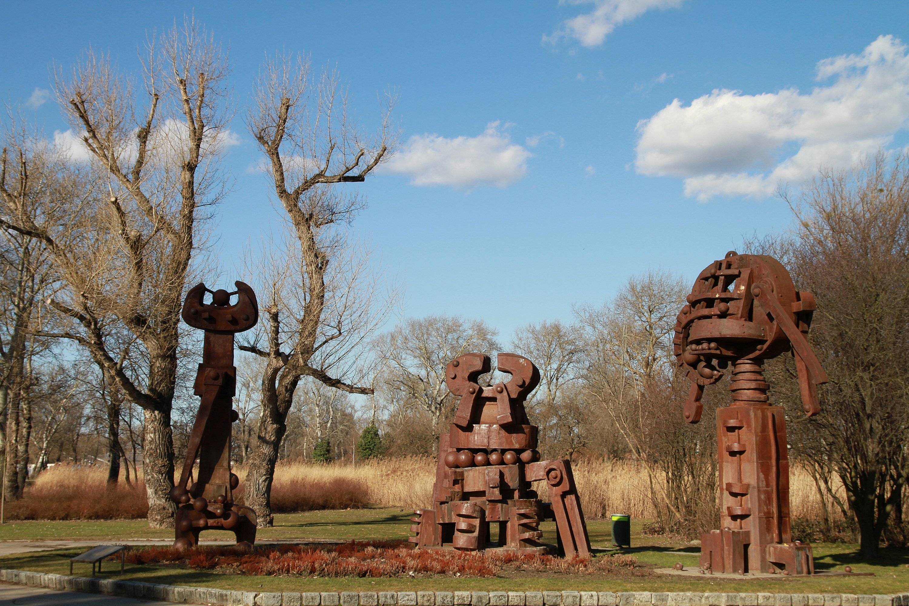 Group of Sculptures "Das Goldene Kalb - Die Technik als Apokalypse" (The golden calf - technology as apocalypse) by Austrian sculptor Karl Anton Wolf, located in the Donaupark, Vienna.